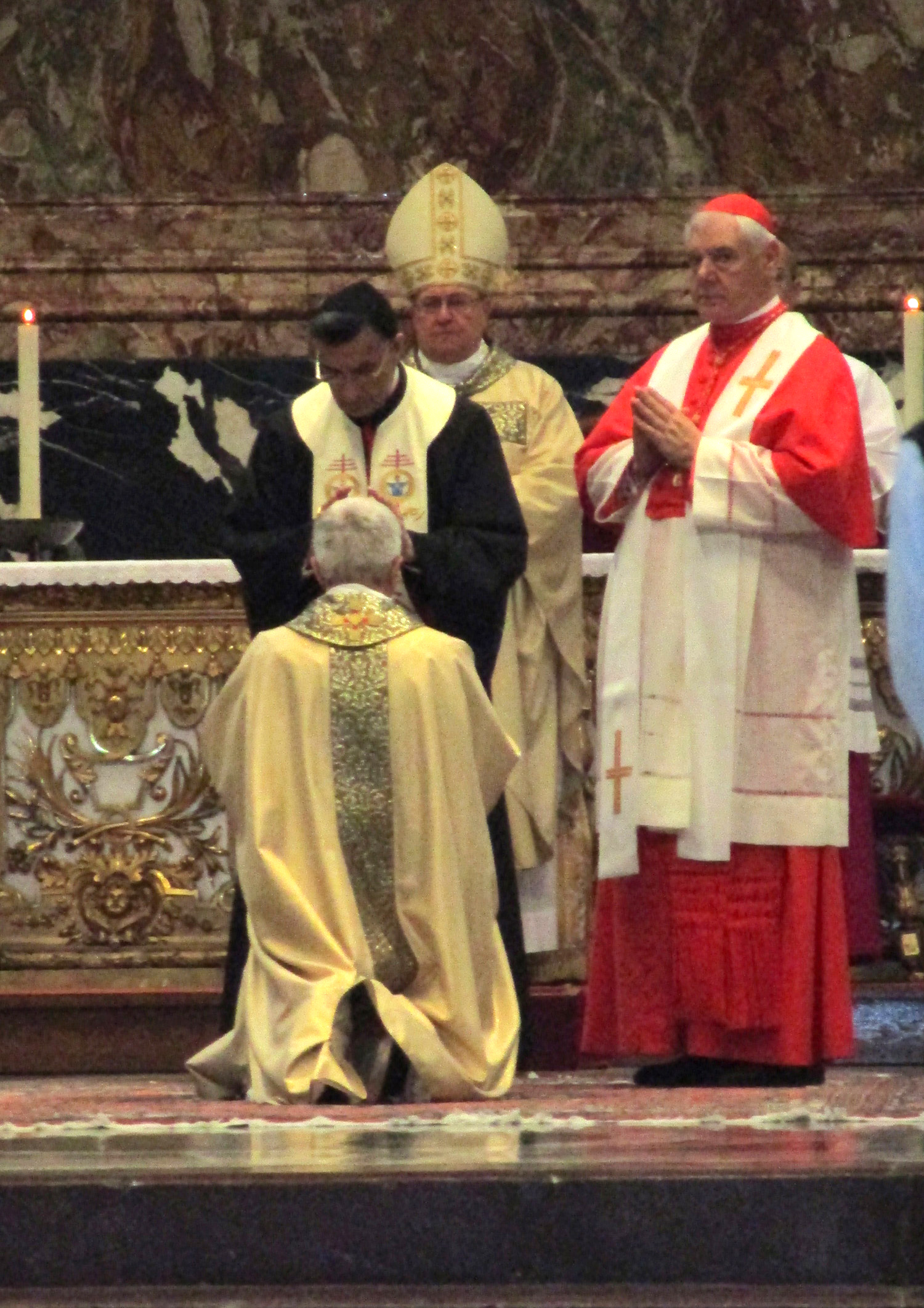 Maronite Patriarch Bechara Boutros Rai laying on his hands to father Maurizio Malvestiti on his episcopal ordination 11 October 2014.